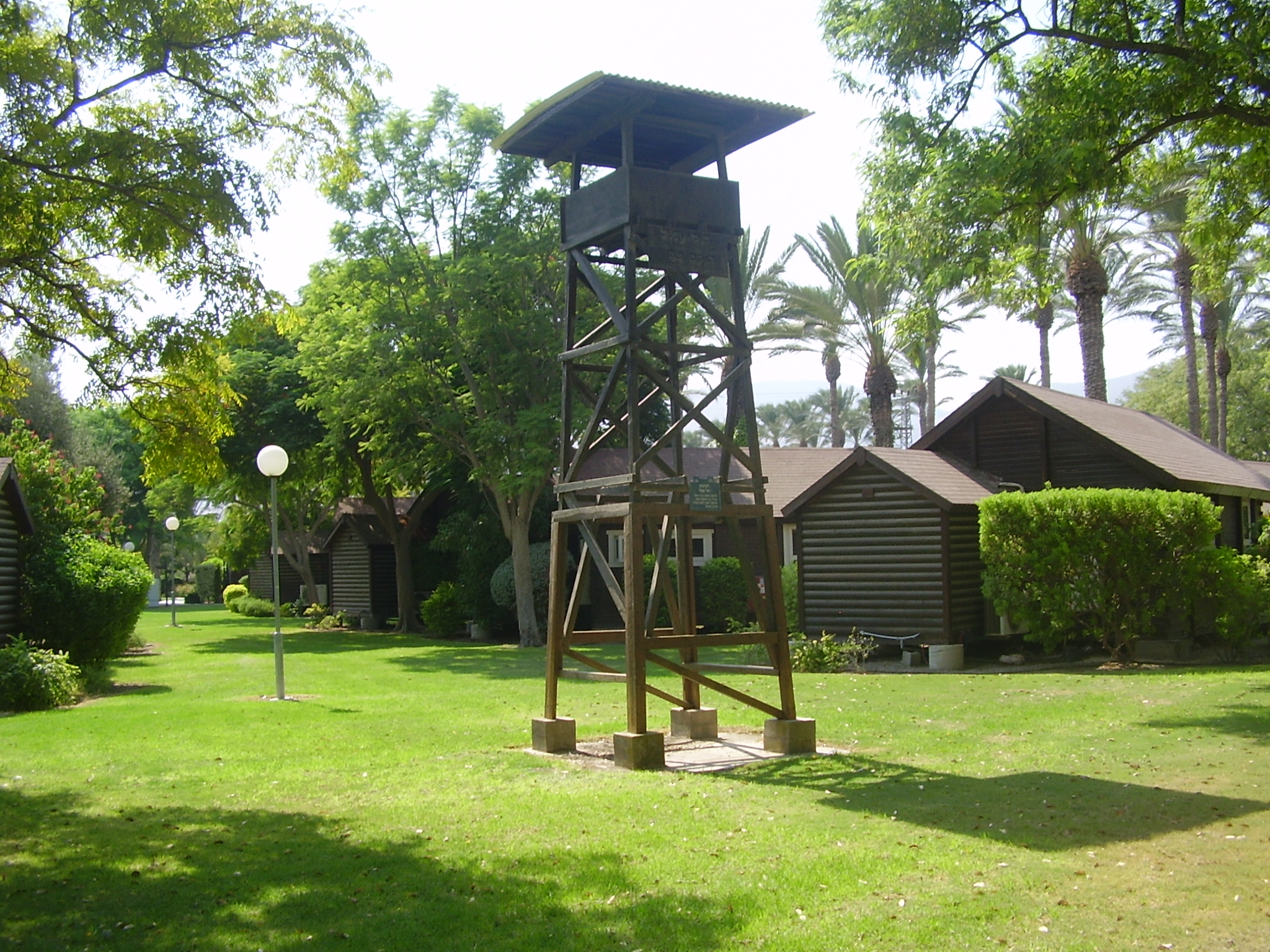 Kibbutz Nir David